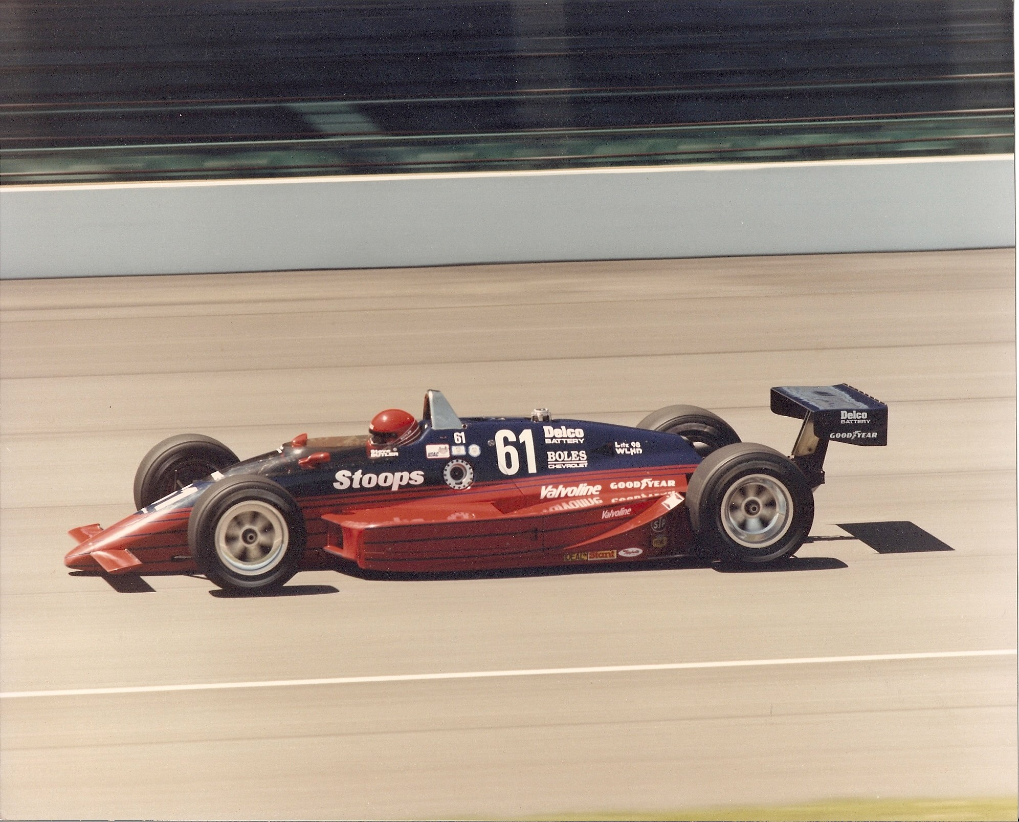 Steve Butler in a 87 Lola/Cosworth at the 1989 Indianapolis 500. Jeff Stoops is the car owner